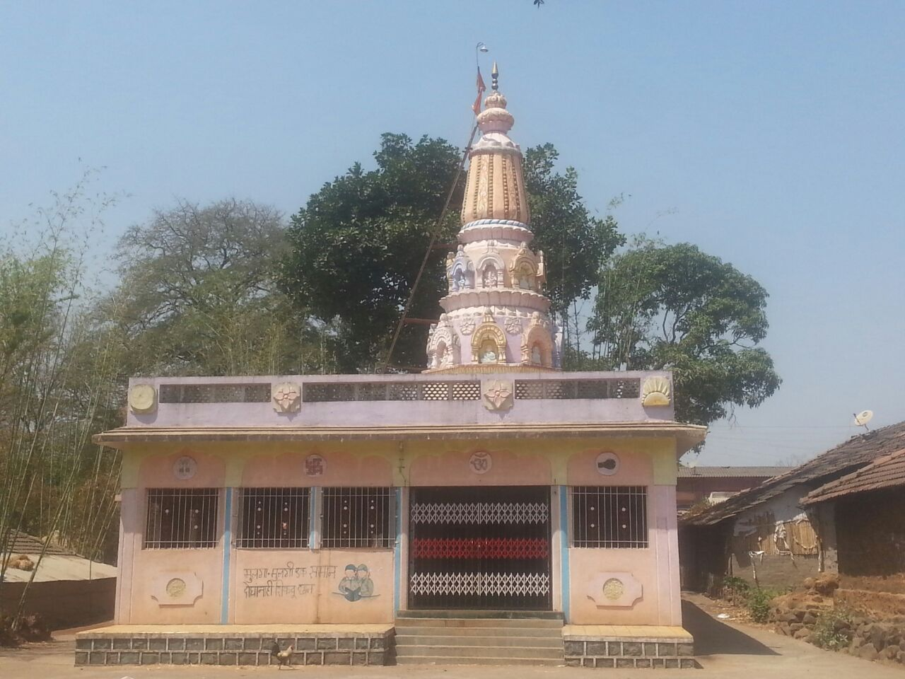 विठ्ठल रुक्मिणी मंदिर मेरावणे